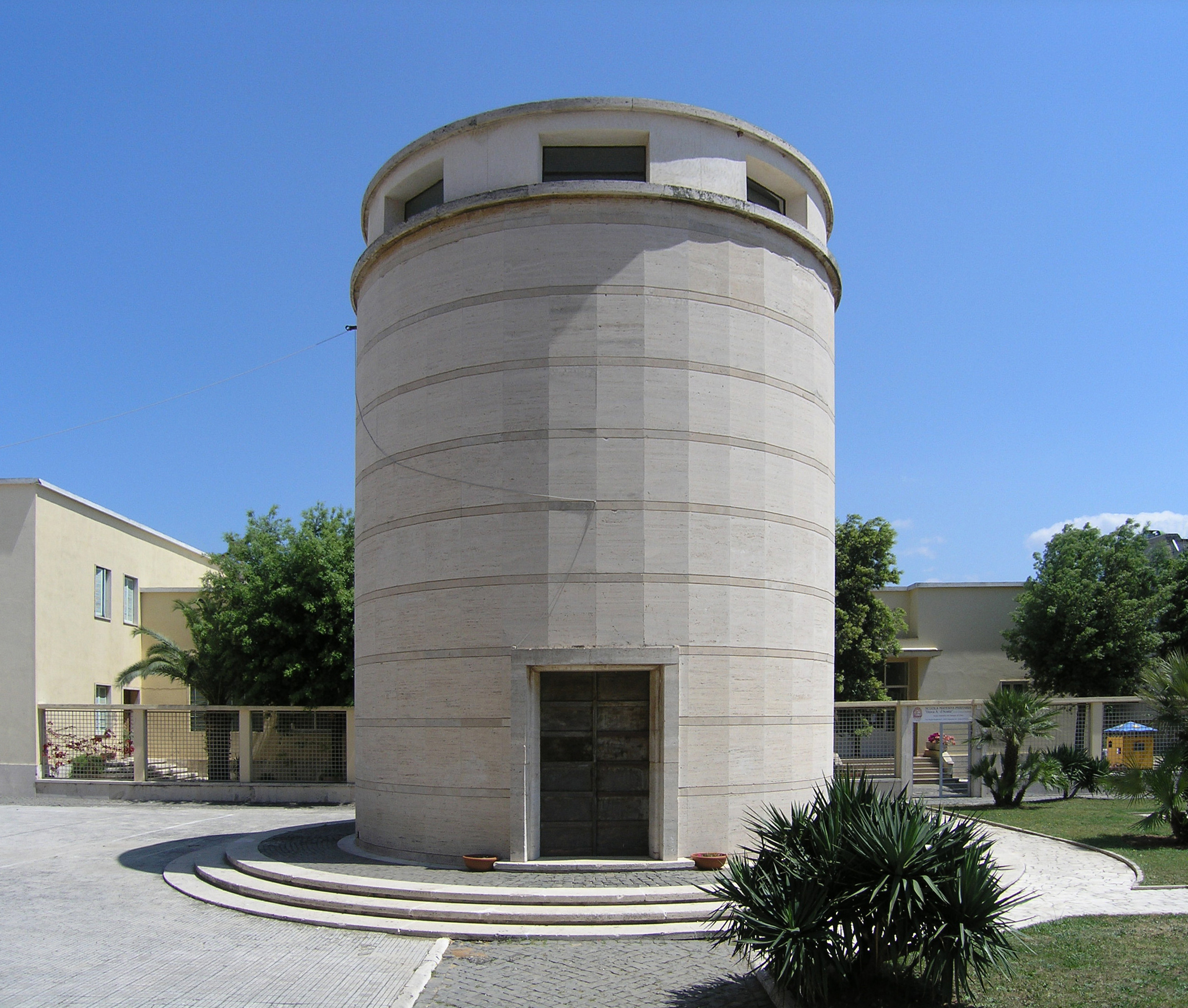 Chiesa dell'Annunziata, baptistery - Piazza Regina Margherita, 1933-1934. Architects: Gino Cancelotti, Eugenio Montuori, Luigi Piccinato, Alfredo Scalpelli (who also planned the city after winning the initial competition in 1933).